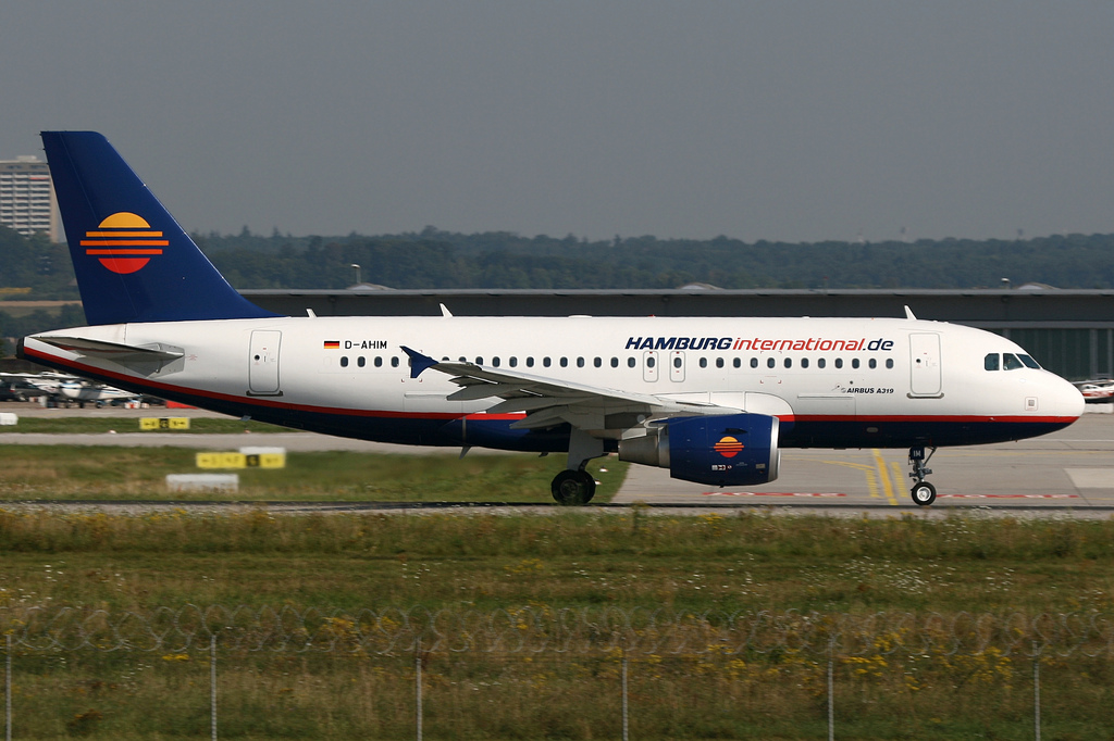 Hamburg International Airbus A319 D-AHIM